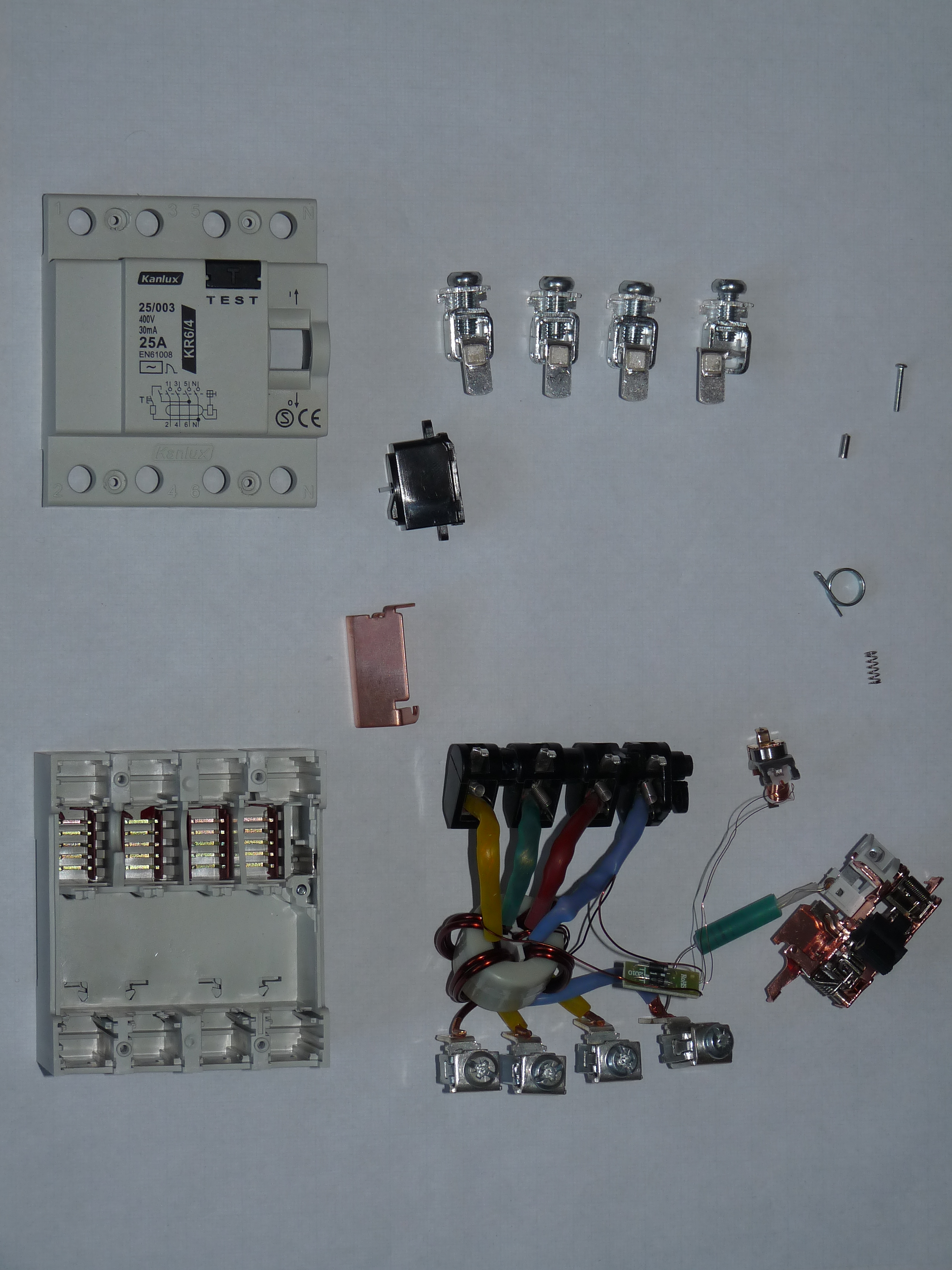 Disassembled RCD for DIN rail